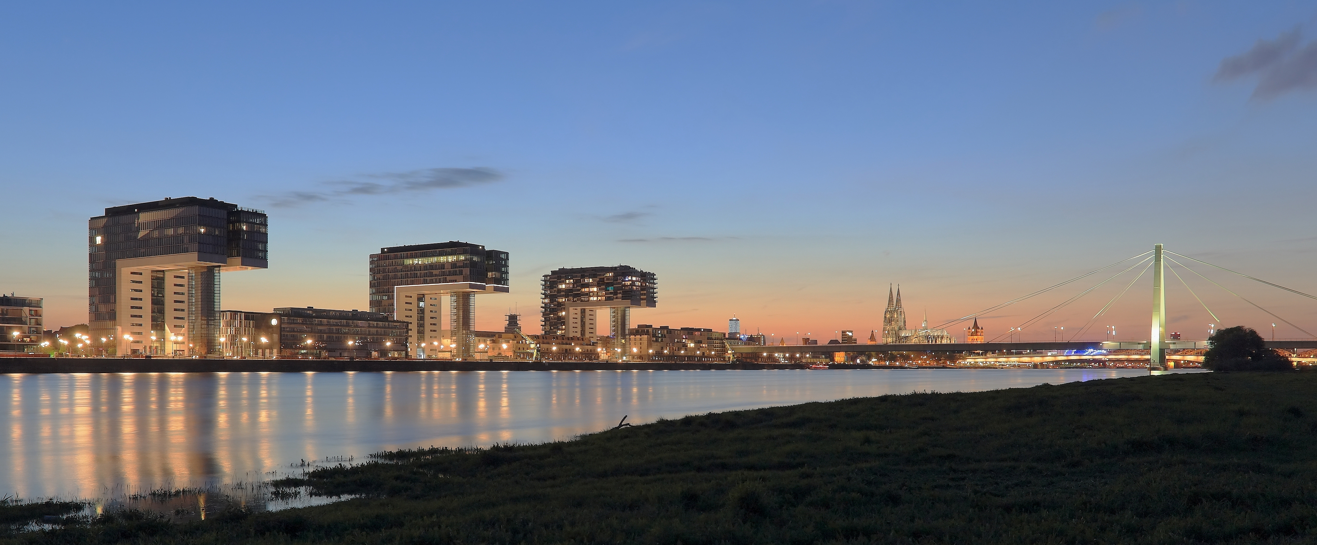 Panorama of Cologne as seen from the Rhine near the Kranhäuser.